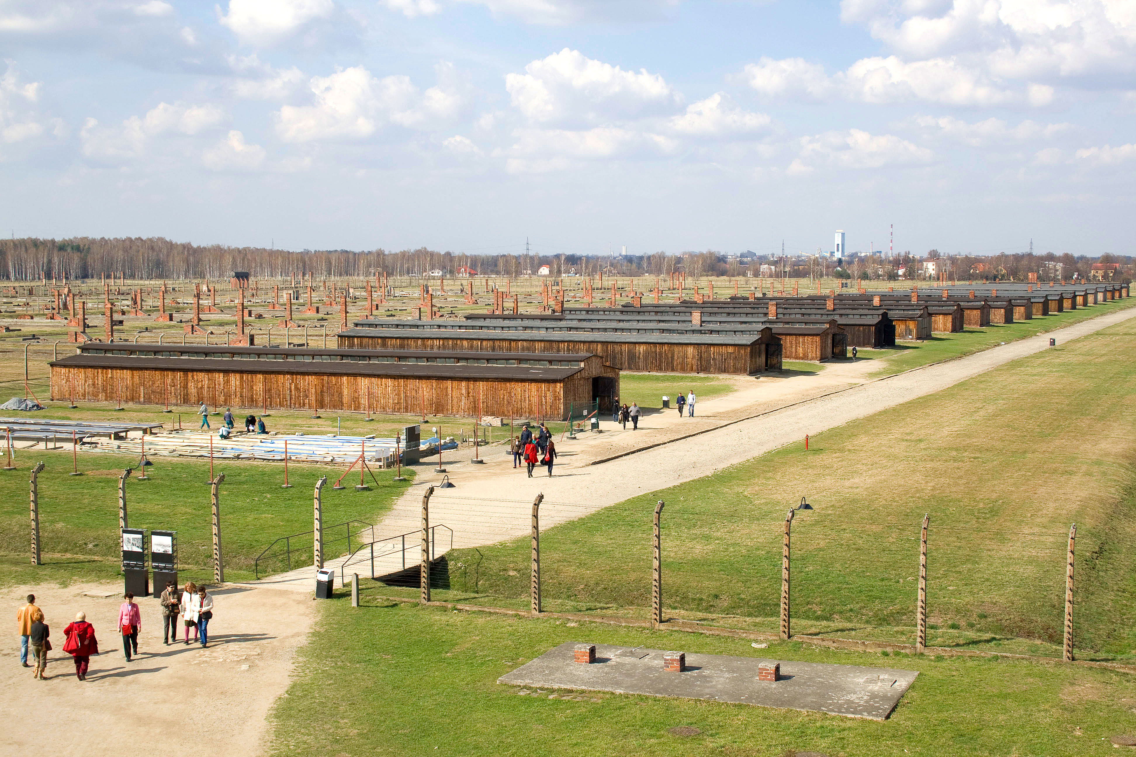 Barracks Auschwitz ll (Birkenau), Poland